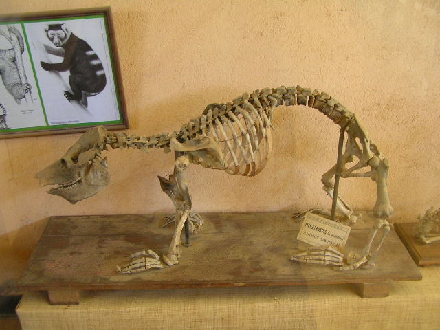 A Koala lemur (Megaladapis grandidieri) skeleton at Tsimbazaza Zoo, Madagascar.